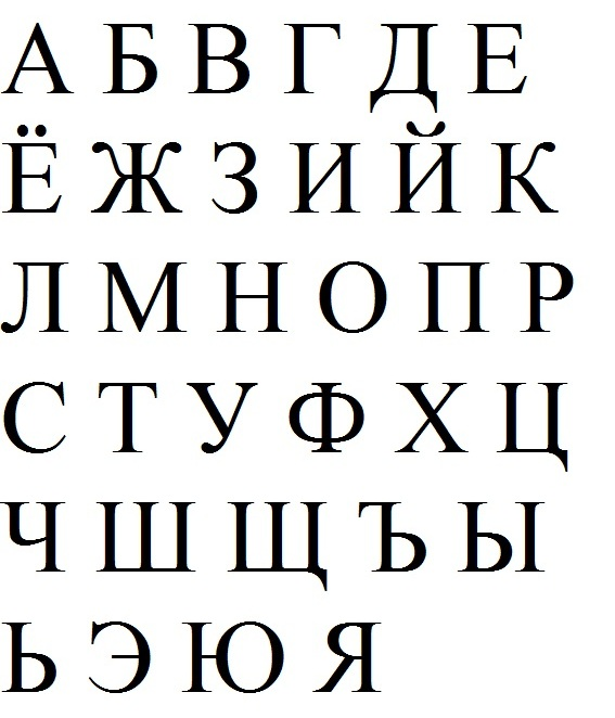 Russian alphabet.